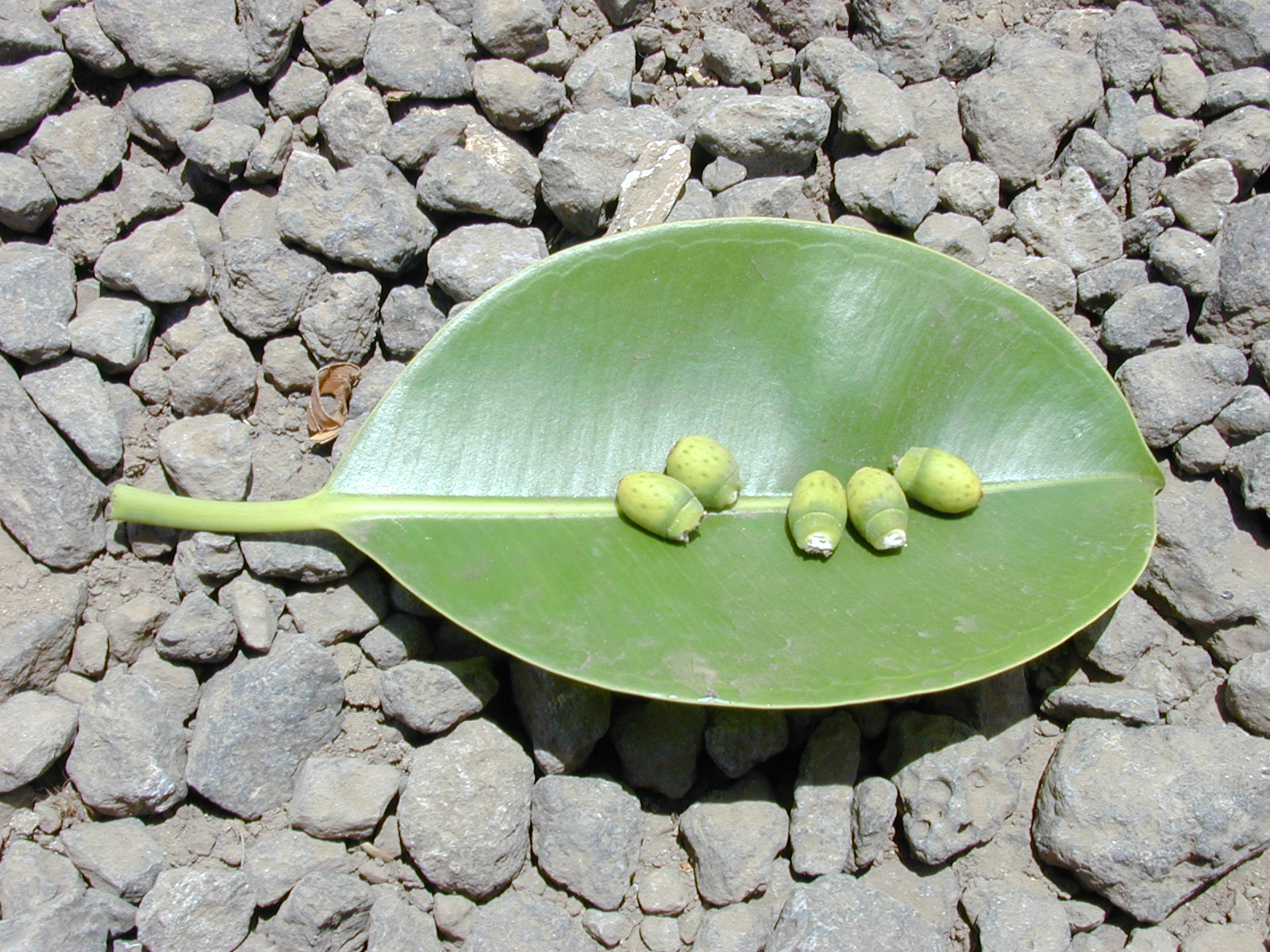 Ficus elastica (leaf and immature fruit). Location: Maui, Kihei